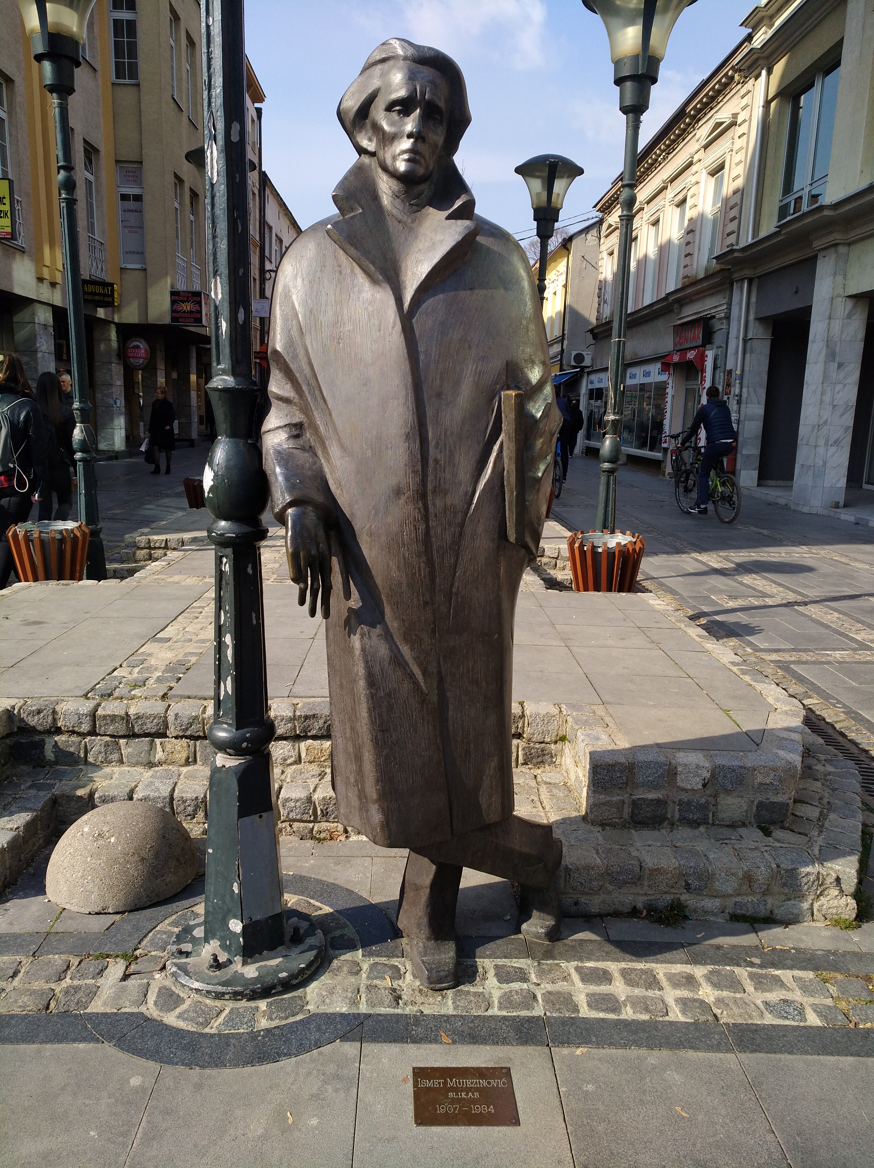 Statue of Ismet Mujezinović, in Tuzla, Bosnia and Herzegovina.